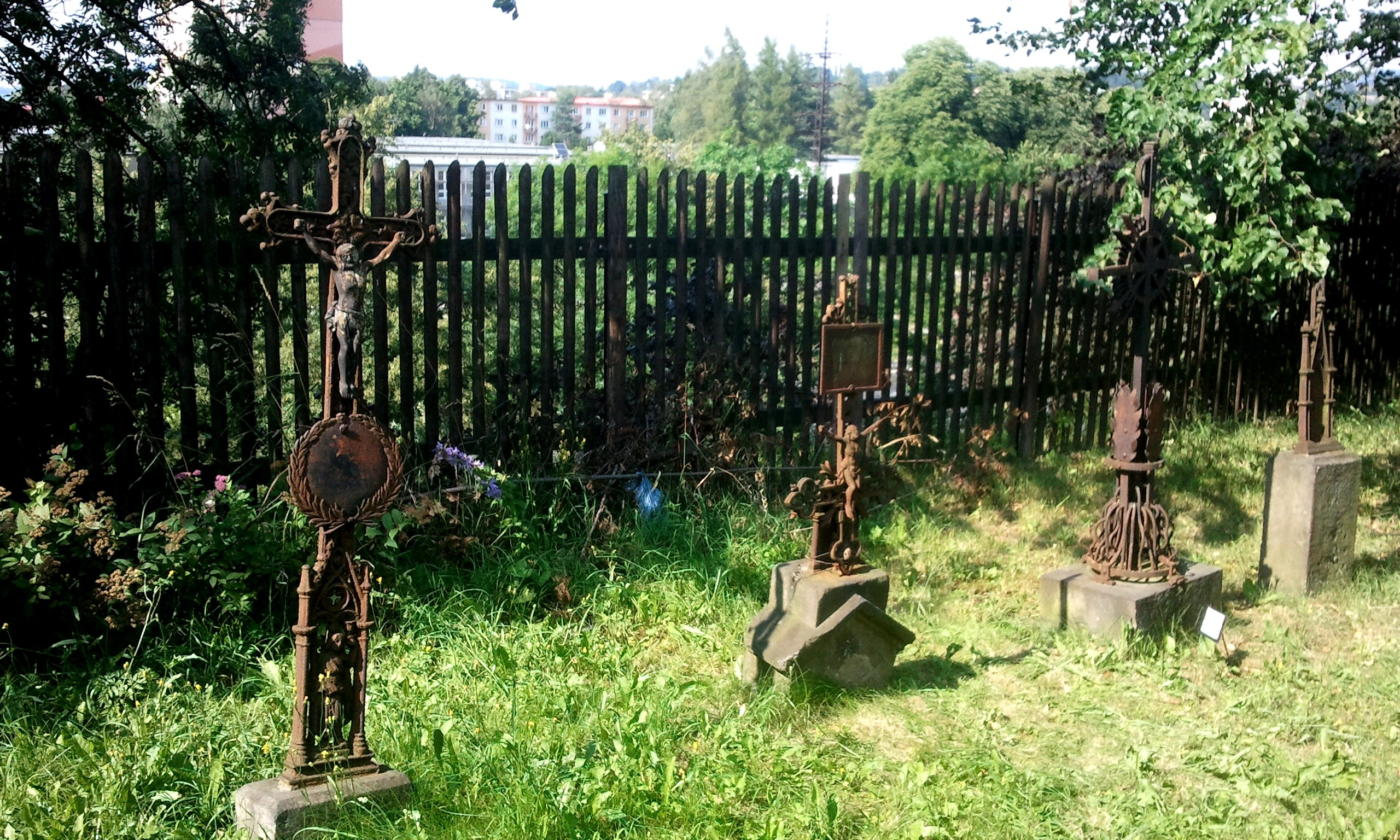 Cemetery of Holy Trinity Church in Valašské Meziříčí, Moravia.